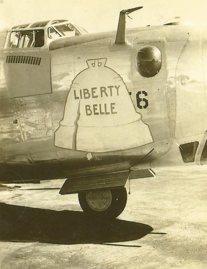 B-24H-25-DT 42-51134 Liberty Belle, 466th BG - 784th BS